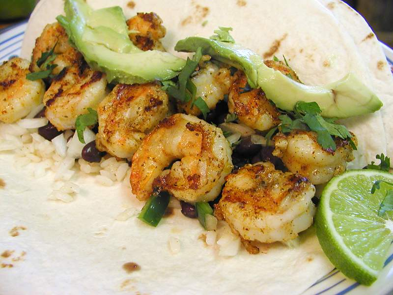 A photo of tacos